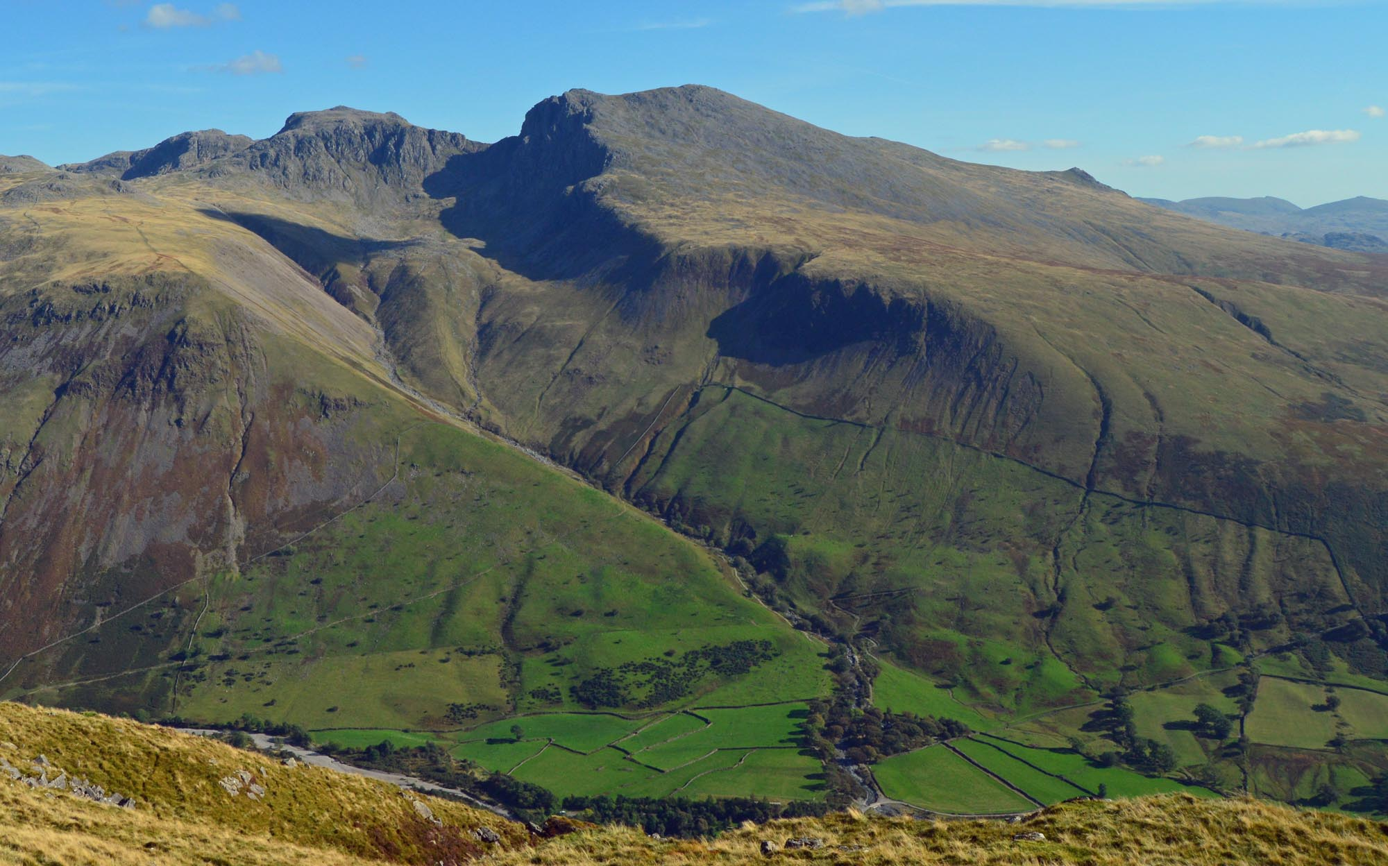 View of the Scafell massif from Yewbarrow, Wasdale, Cumbria. The field enclosure boundaries can clearly be seen.